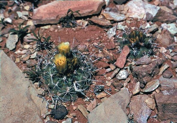 Sclerocactus wrightiae